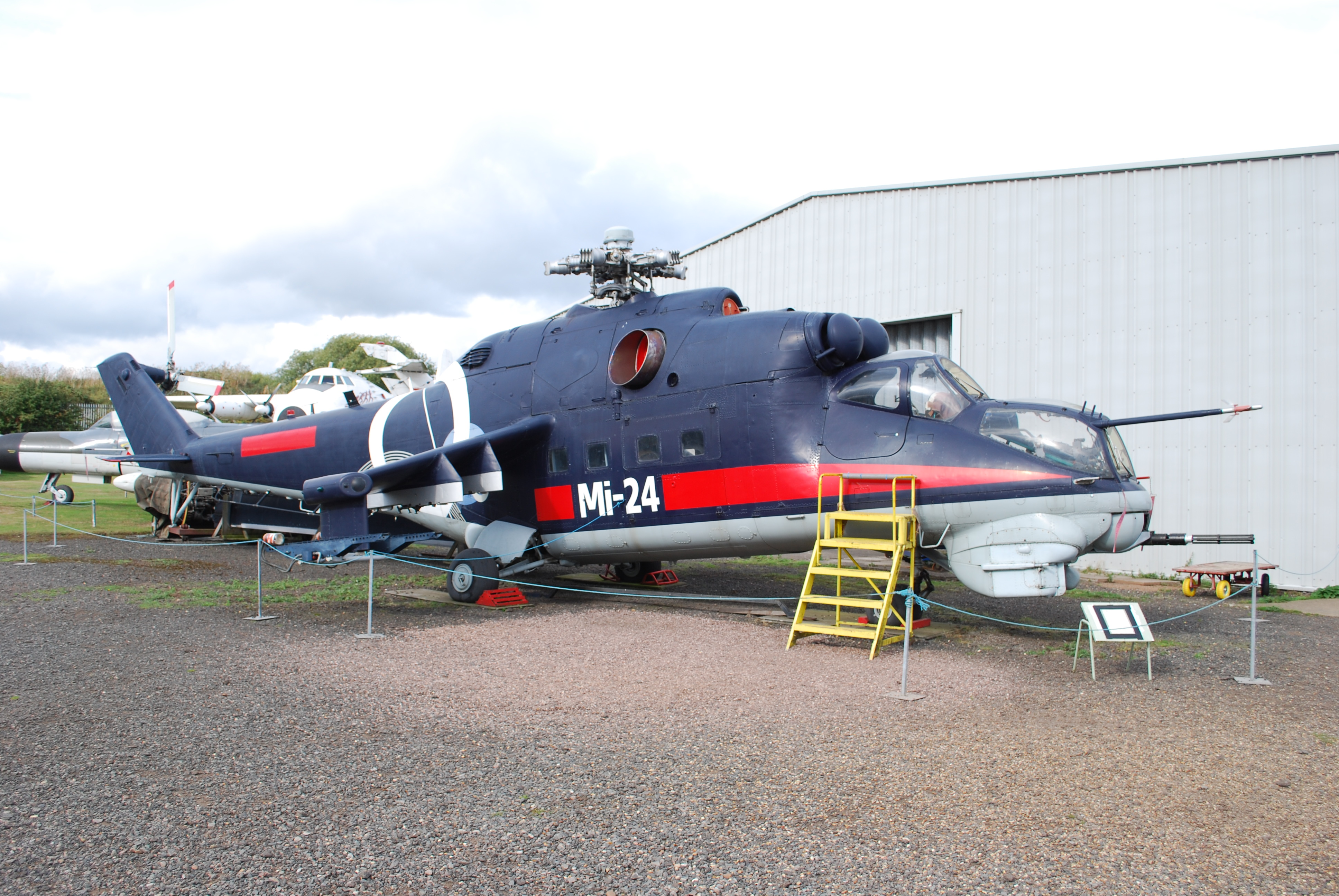 MIL Mi-24D (Hind), ex-Latvian AF, bought by BaE and rebuilt in 2004 with NATO avionics as a prototype to gain work from ex-Eastern block countries for similar rebuilds. But nothing seems to have come of it so far as I am aware. At the Midland Air Museum, Coventry, 9/11.